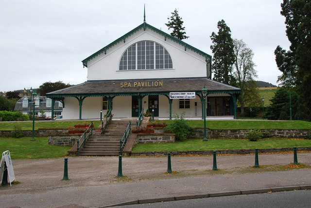 Spa Pavilion This lovely building is close to the square in Strathpeffer.